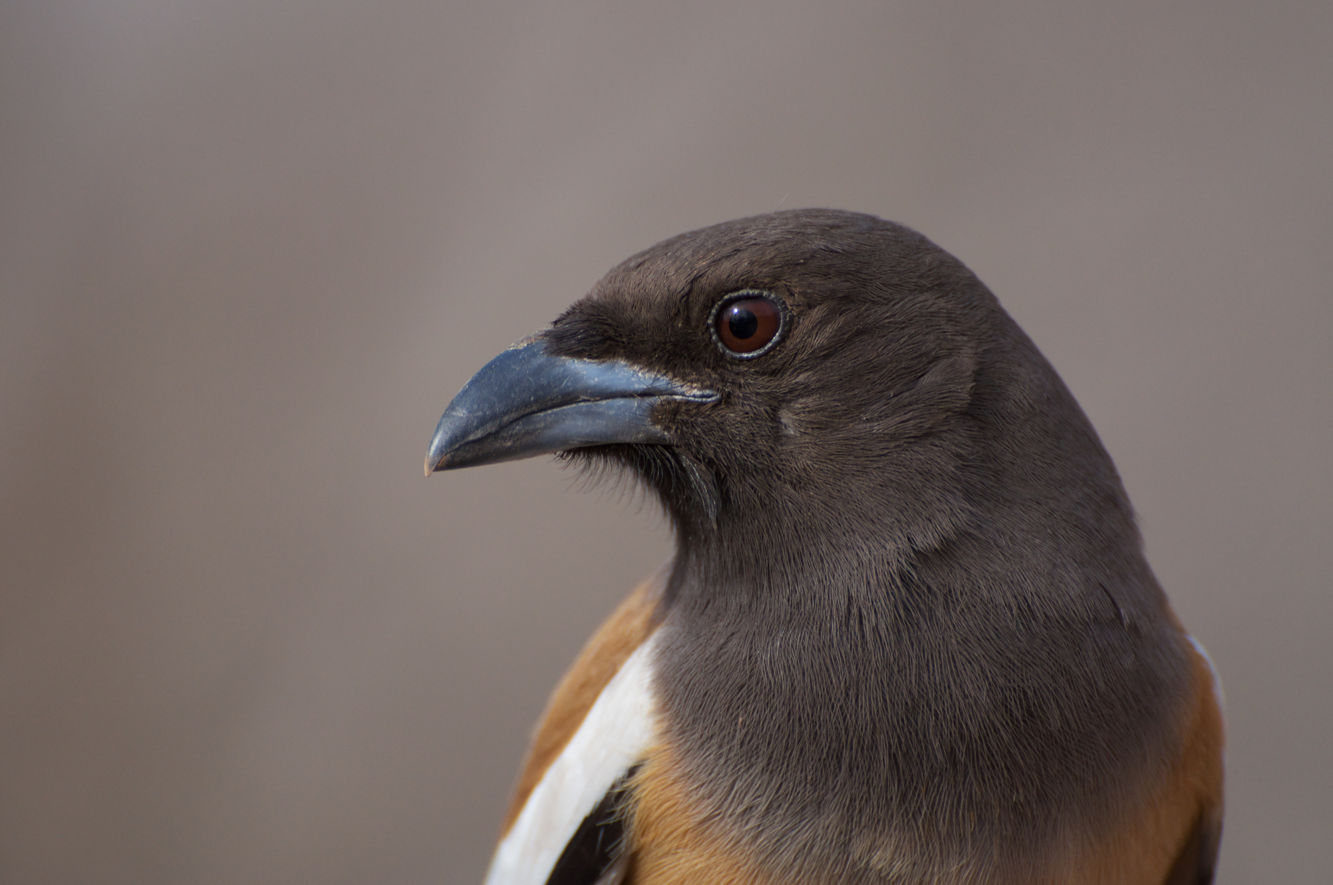 Rufous Treepi